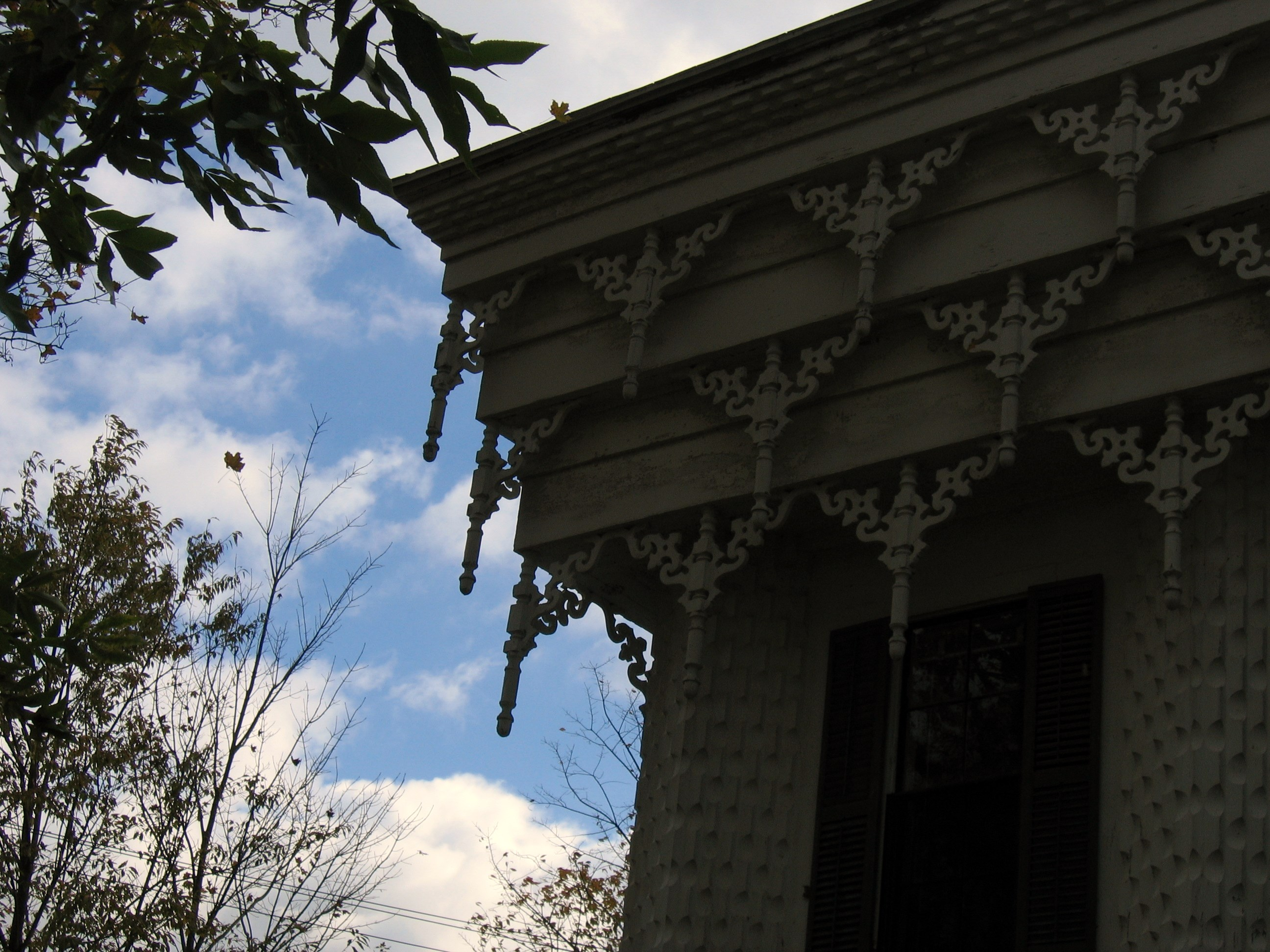 Spirit House Architectural detail showing triple-tiered compound fascia.